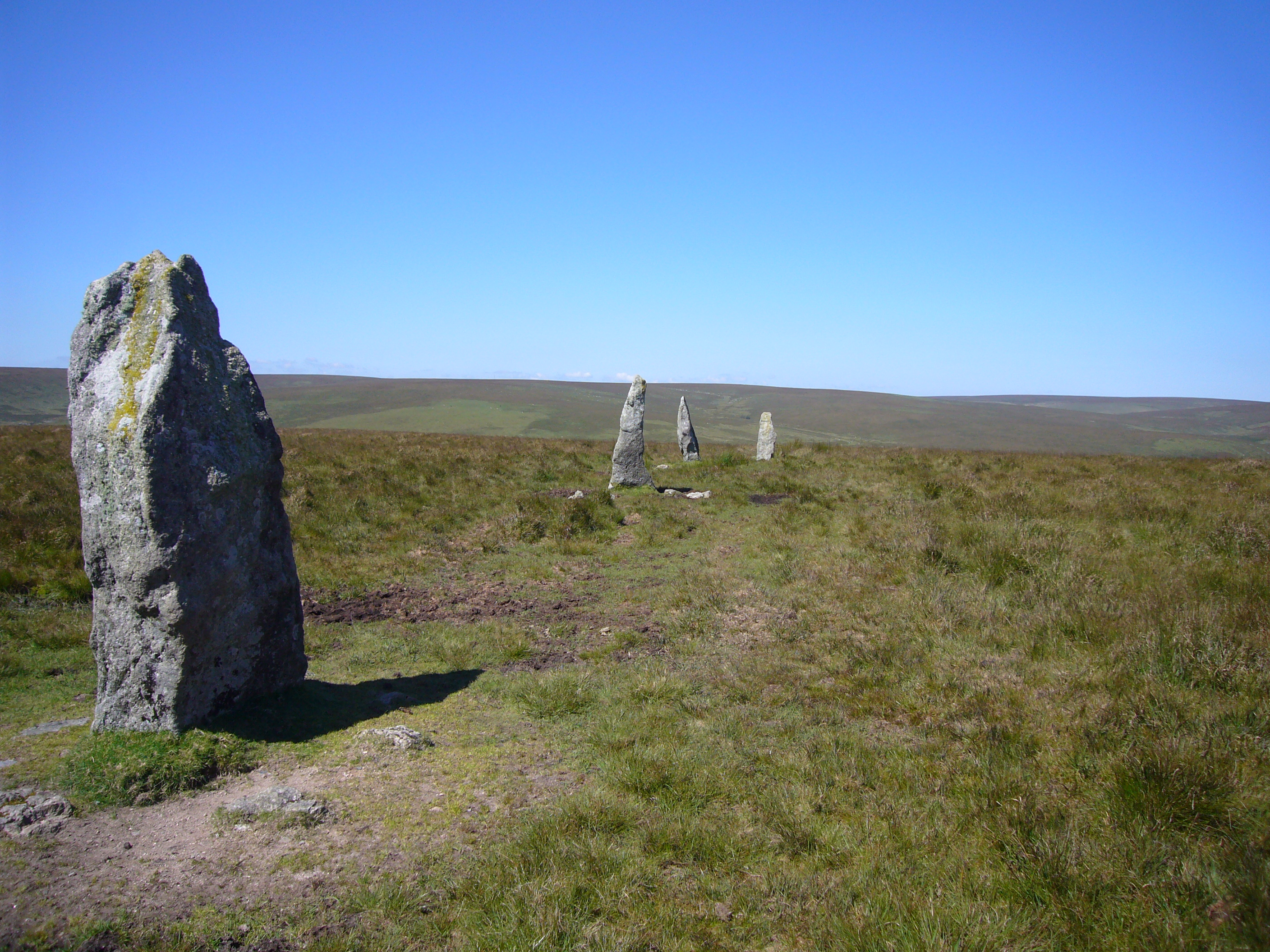 Stall moor stone row (looking North) on Dartmoor (Devon)